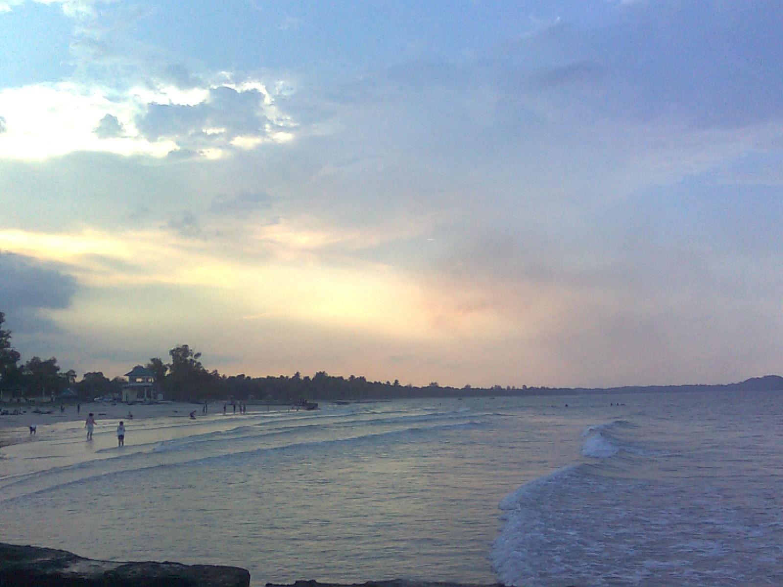 Matras beach in sunset, Bangka, Indonesia